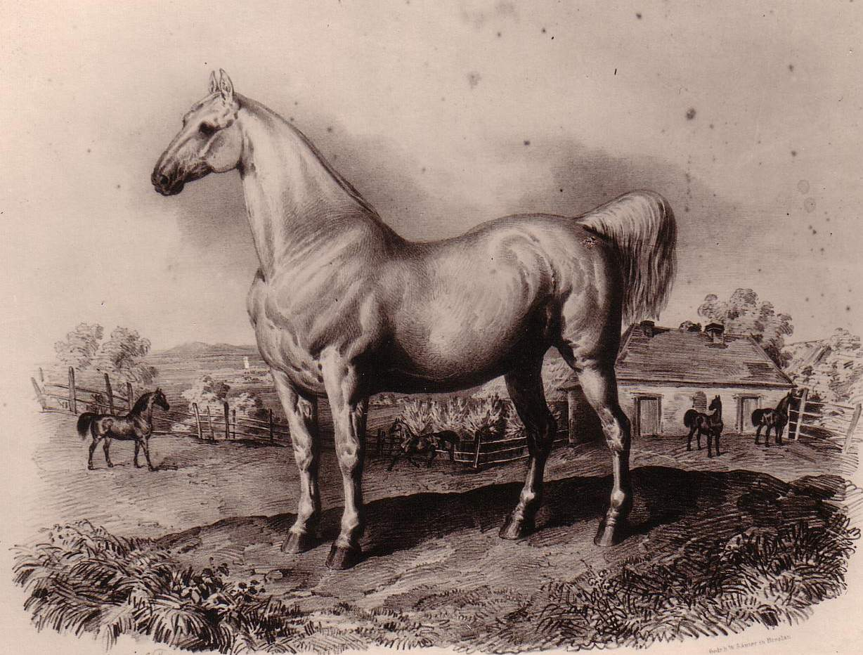 Cleveland, name: Celebrity. From breeder Ernst von Thaer, Panthen